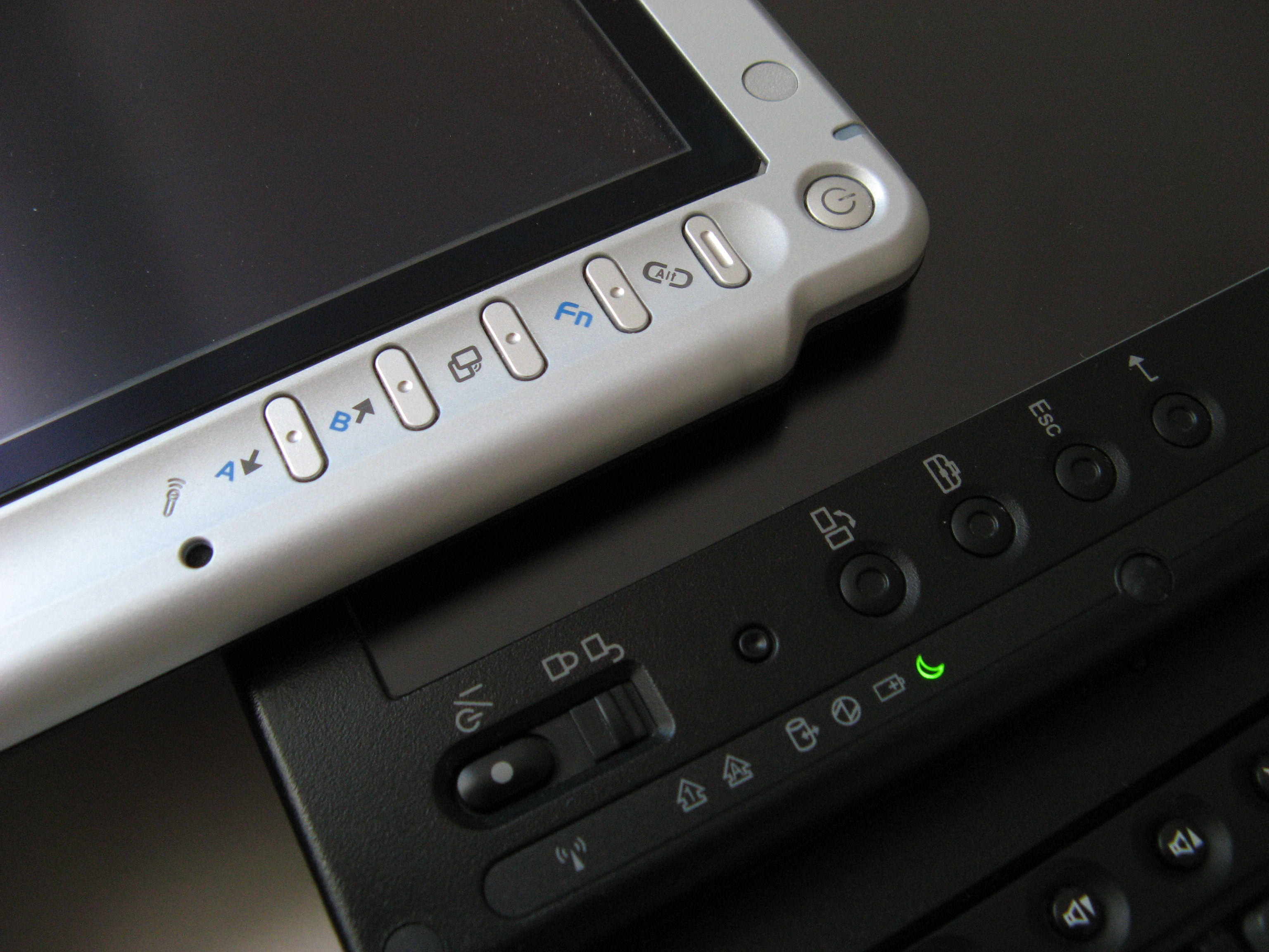 Tablet-PC-Buttons on a Fujitsu-Siemens Lifebook T4210 and a IBM Thinkpad X41t